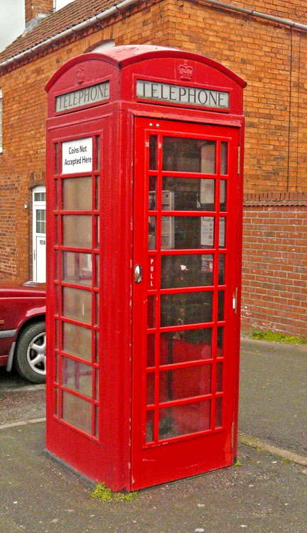 I took this picture on April 11, 2008.